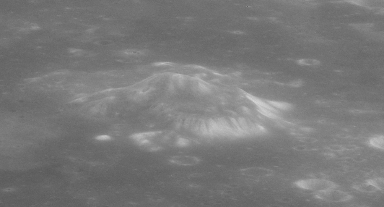 Oblique view facing approximately northeast of the central peak of Neper, on the moon.